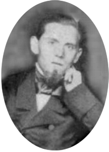 Heinrich Strassmann, (1834-1905), German doctor and gynaecologist